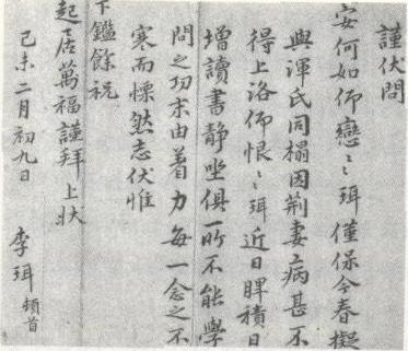 The Letters of Yulgok Lee Yi